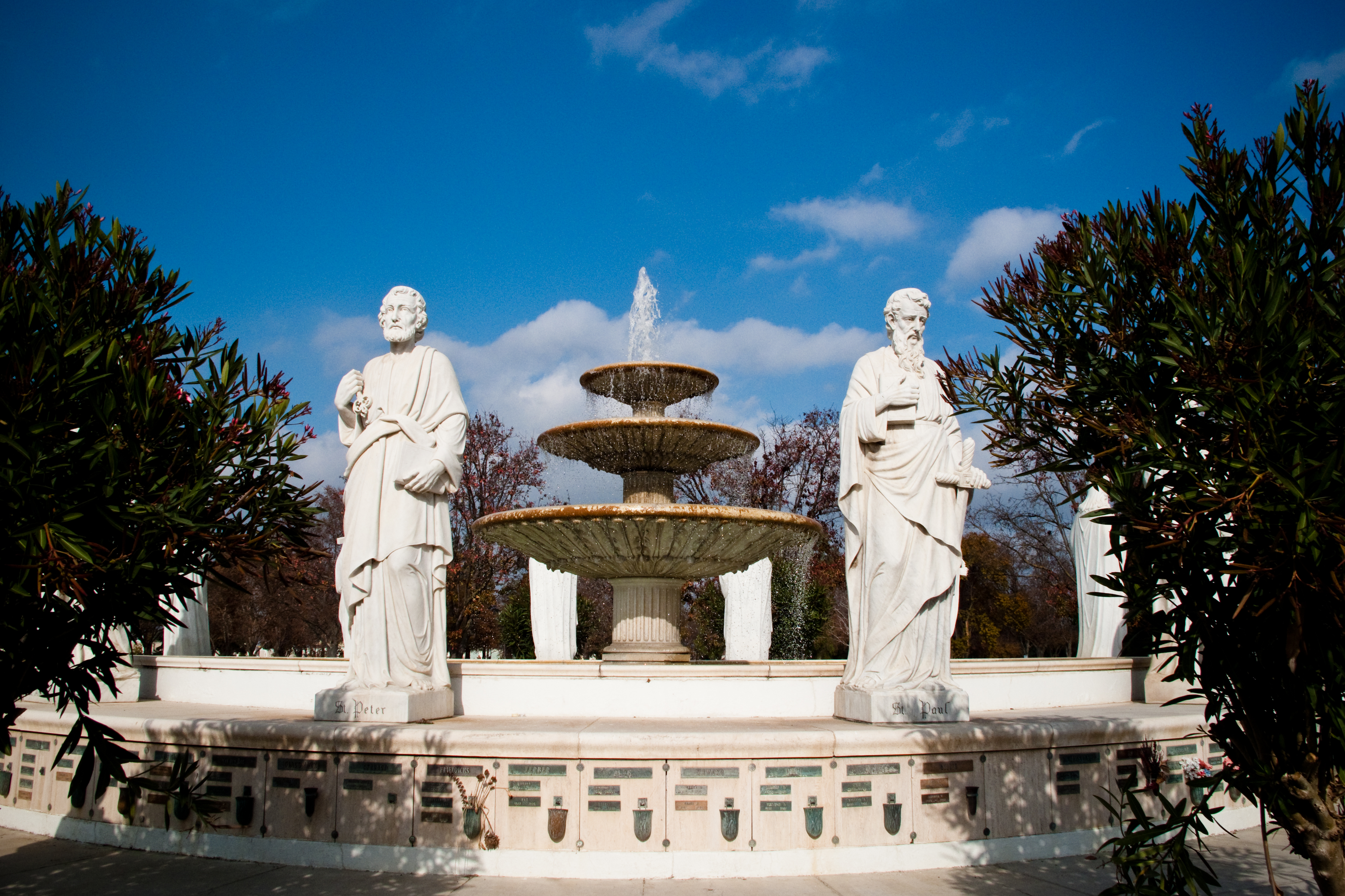 Taken at Oak Hill Memorial Park on December 5, 2009.